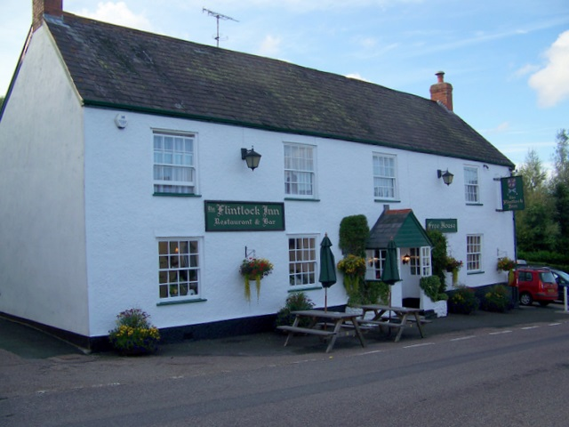 The Flintlock Inn, Marsh This hostelry was originally just a room in a Marsh Farm and it was then called the Globe.